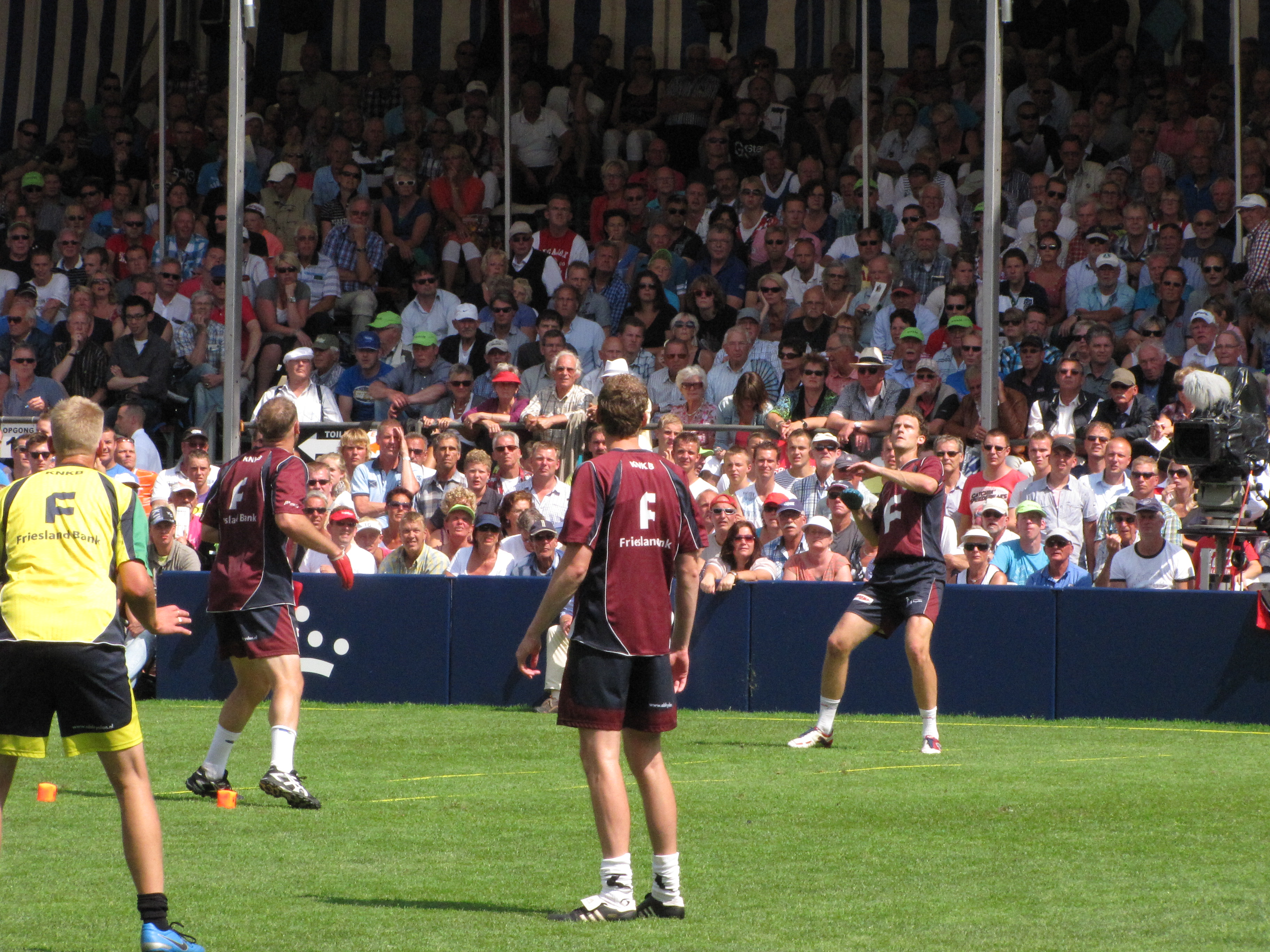 Taeke Triemstra waiting for the bal during the PC of 2012